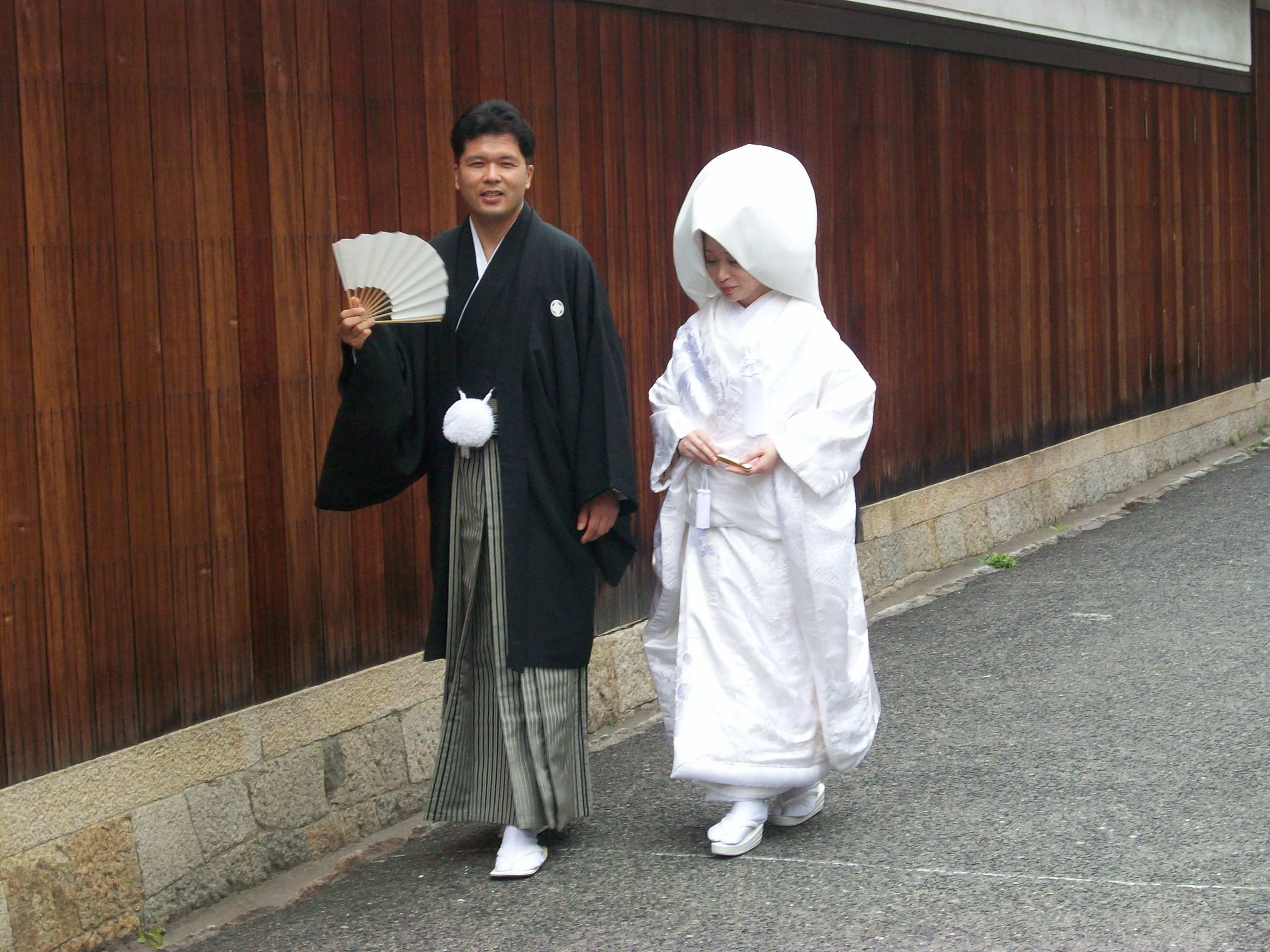 Traditional Japanese wedding Kimonos in Bikan District Kurashiki, Japan